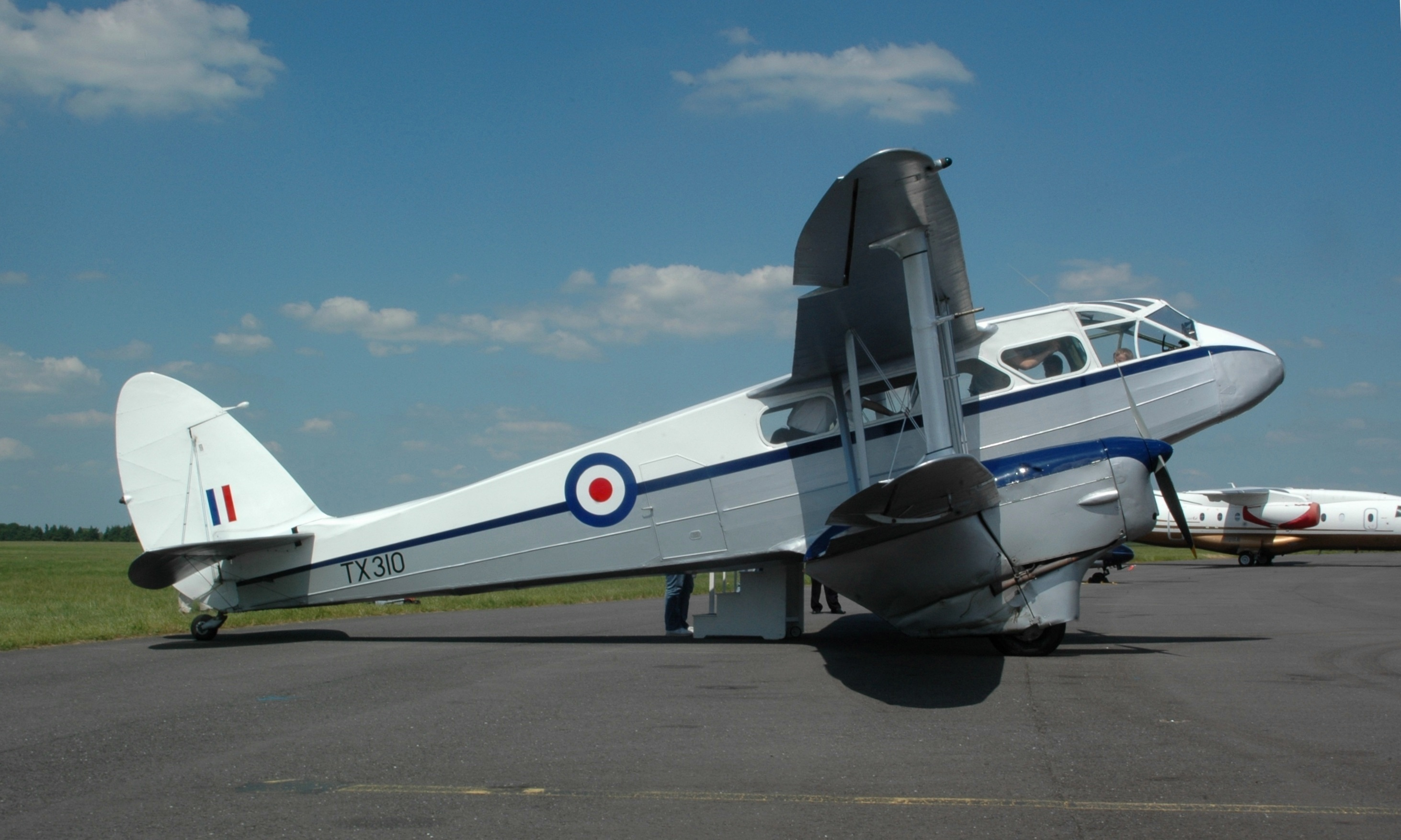 De Havilland DH.89B Dominie at Oxford Airport, Kidlington, Oxfordshire